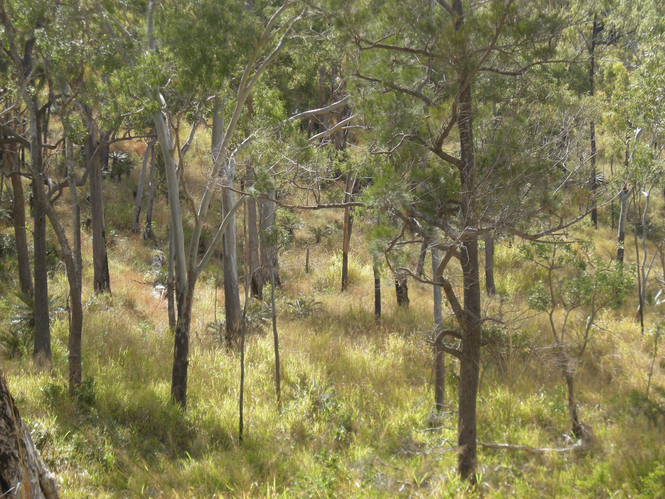 Savanna woodland, Mount Archer National Park. Overstorey is comprised of Eucalyptus tereticornis, Corymbia claksoniana and Casuarina cunninghamii. Understorey consists of a grass layer dominated by Panicum maximum, Heteropogon contortus, H. triticeus and Cymbopogon refractus interspersed with Macrozaamia miquellii, Erythrina vespertilio, Acacia aulacocarpa and Planchonia careya.